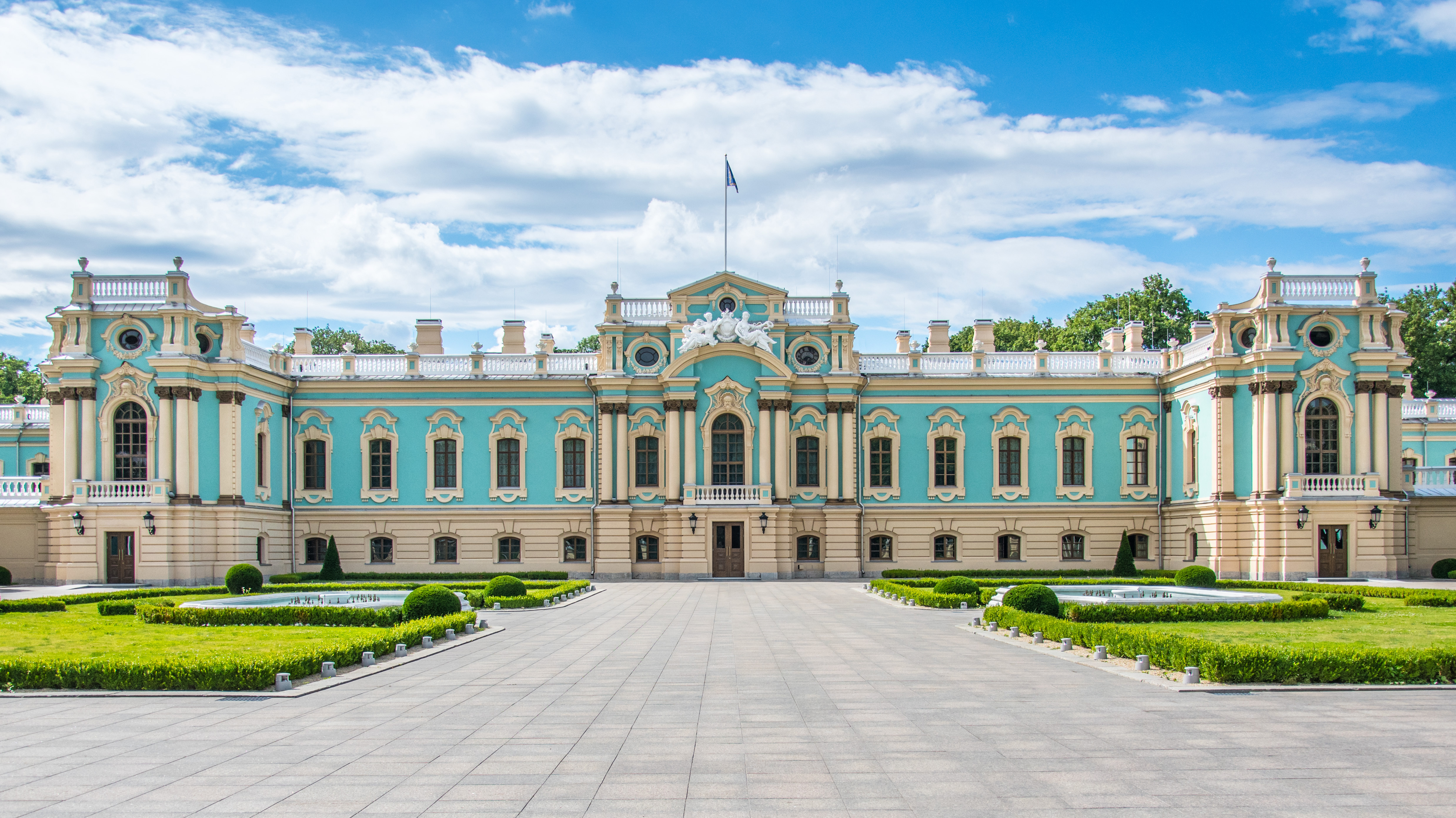 Mariinsky Palace in Kiev, Ukraine